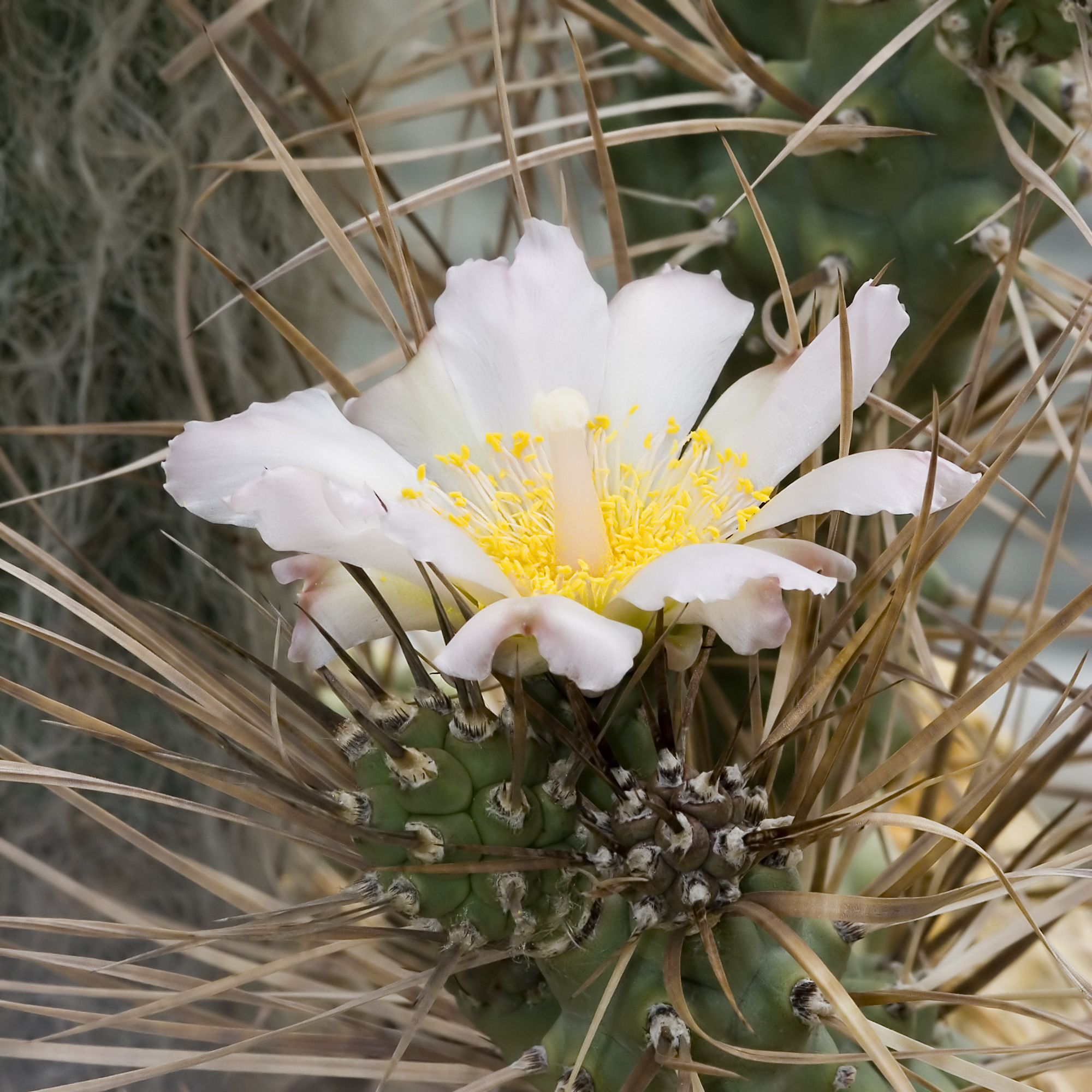 Tephrocactus articulatus v. papyracanthus Location: Dresden, Botanical Garden (Saxony, Germany) 5/180L f16 Film / Speed: ISO 800 Comment